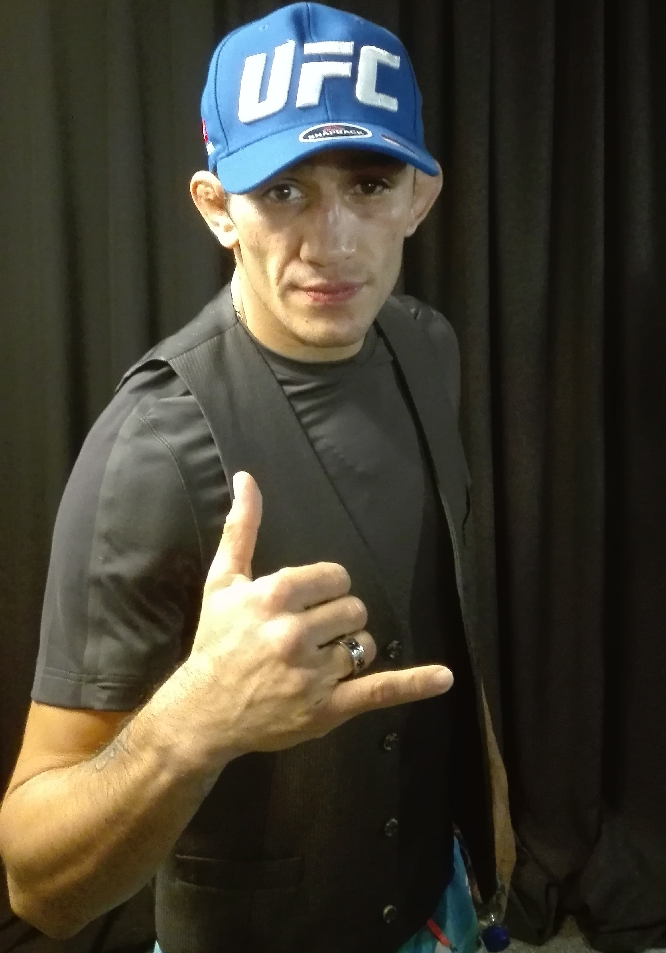 Image of Tony Ferguson backstage after UFC Fight Night 98 where he beat Rafael dos Anjos.